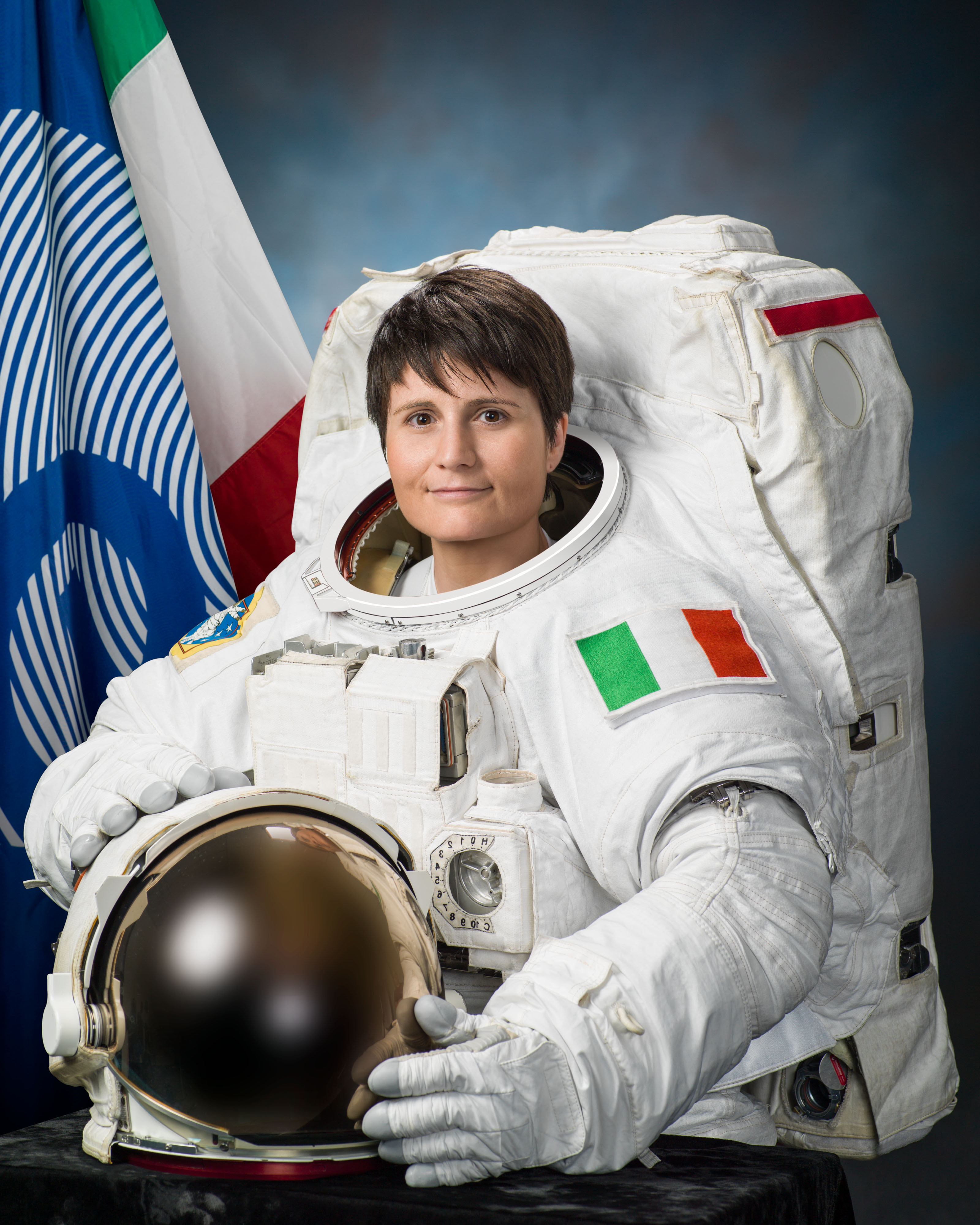 European Space Agency astronaut Samantha Cristoforetti, attired in an Extravehicular Mobility Unit (EMU) spacesuit.